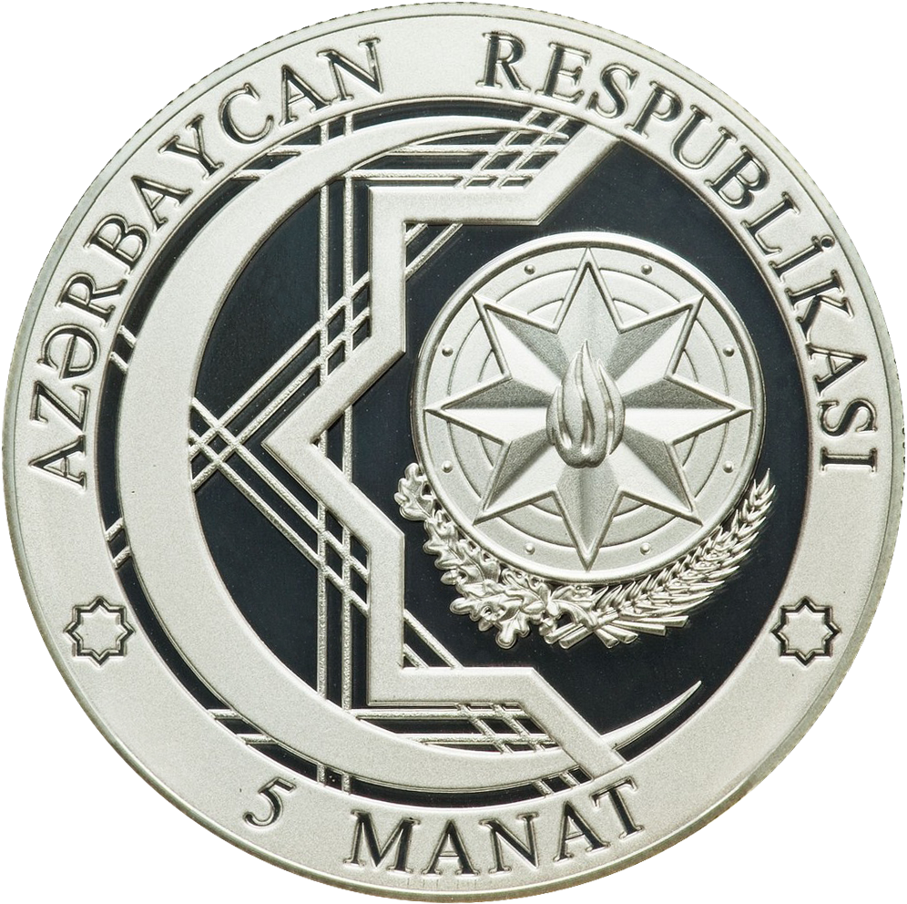 Commemorative coin of Azerbaijan